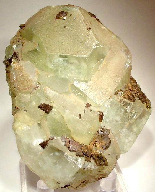 Fluorite, Siderite Locality: Rittersgrün, Breitenbrunn District, Erzgebirge, Saxony, Germany (Locality at ) A very showy, old-time, classic German specimen of lustrous, gemmy, green fluorite dodecahedrons preferentially coated and sparingly covered with platy, rust-brown siderite. This fine old piece, with an antique German label, hails from Rittersgrun, Erzgebirge, Saxony. ex Kevin Brown Collection 7.9 x 6.8 x 4.2 cm